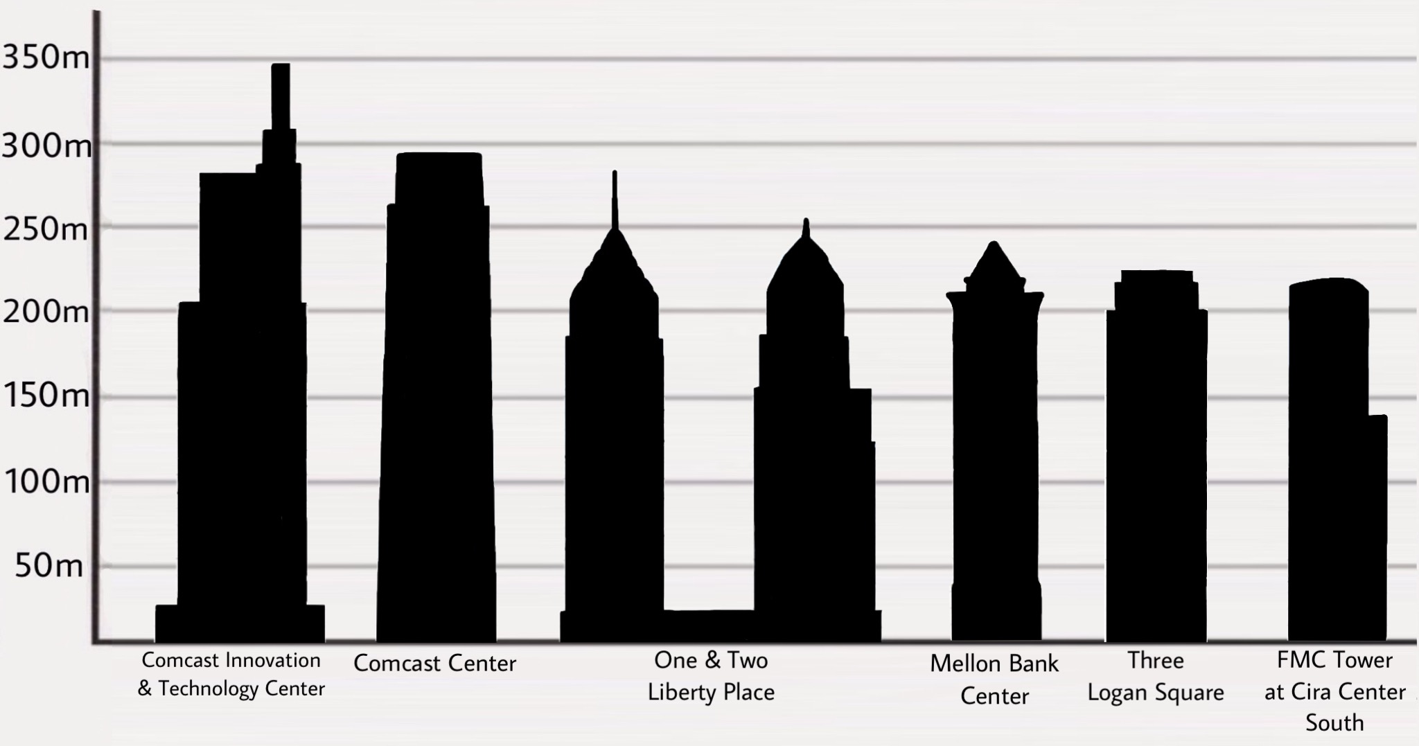 A comparison of the 7 tallest skyscrapers in Philadelphia.